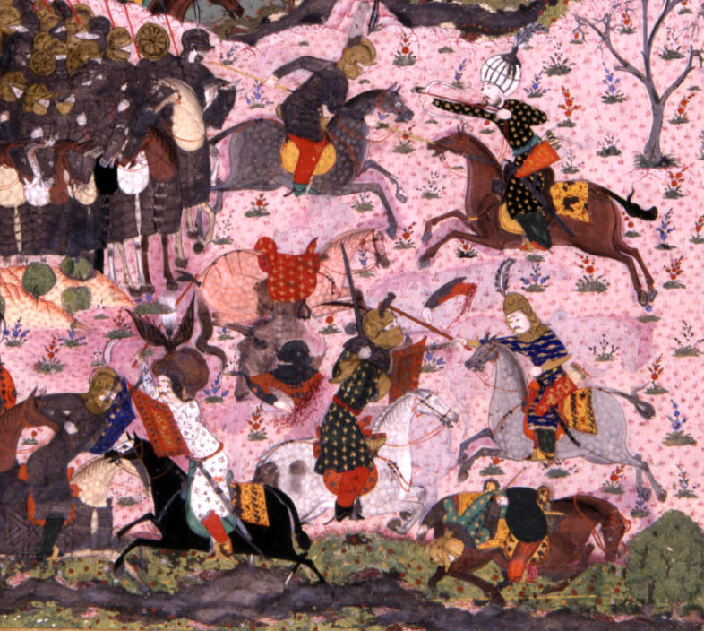 Illustrations of Ottoman soldiers from the Süleymanname